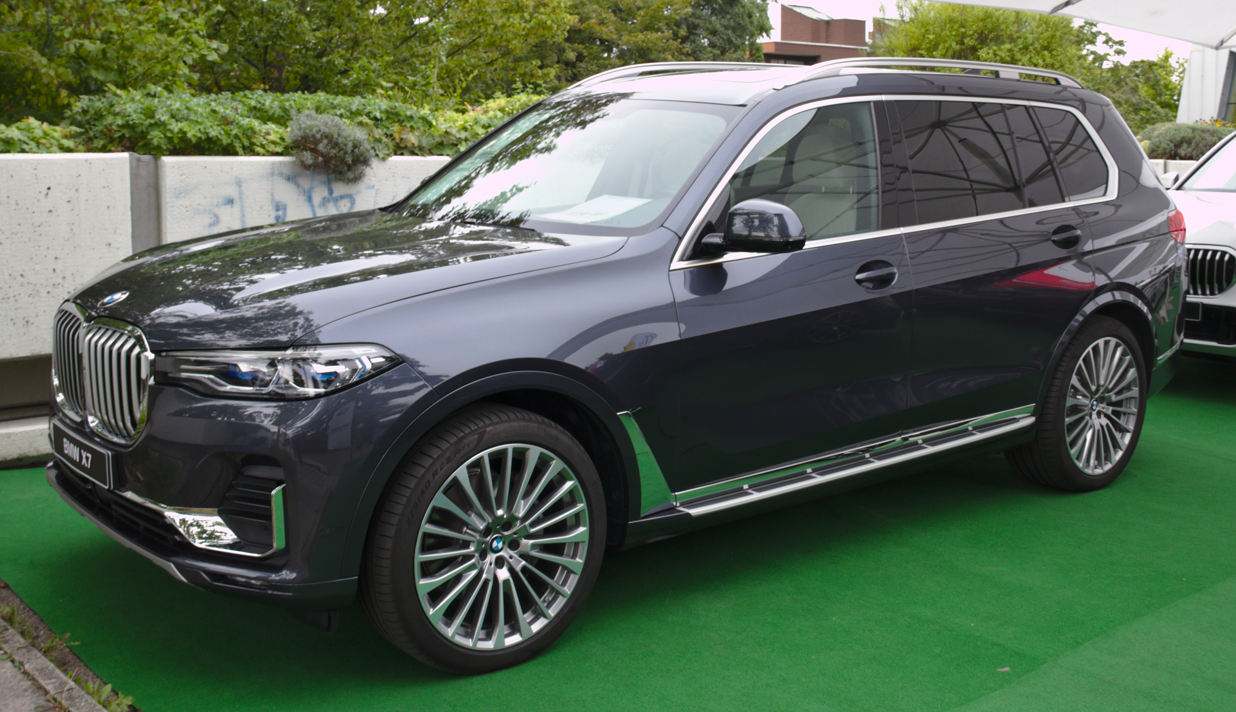 BMW_X7 at Leonberger Autoschau 2019